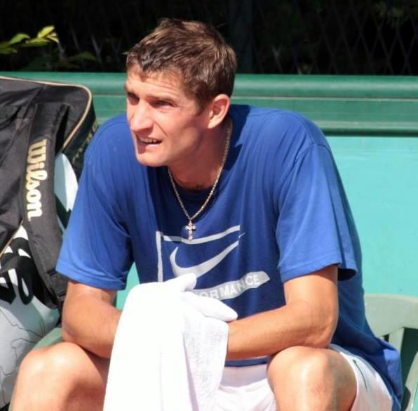 Max Mirnyi at 2009 Roland Garros, Paris, France